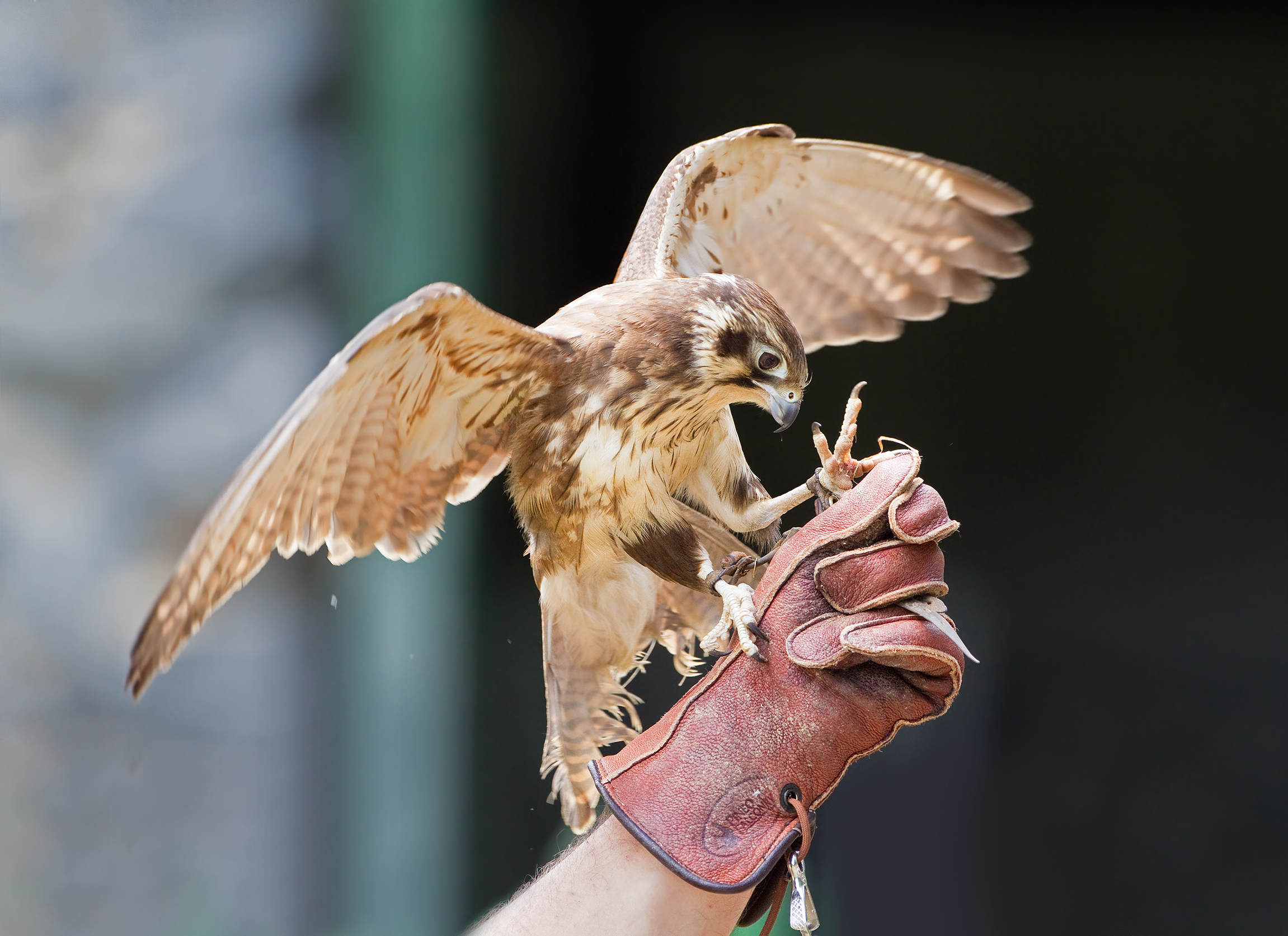 Brown Falcon (Falco berigora), Tasmanian Devil Conservation Park, Taranna, Tasmania, Australia